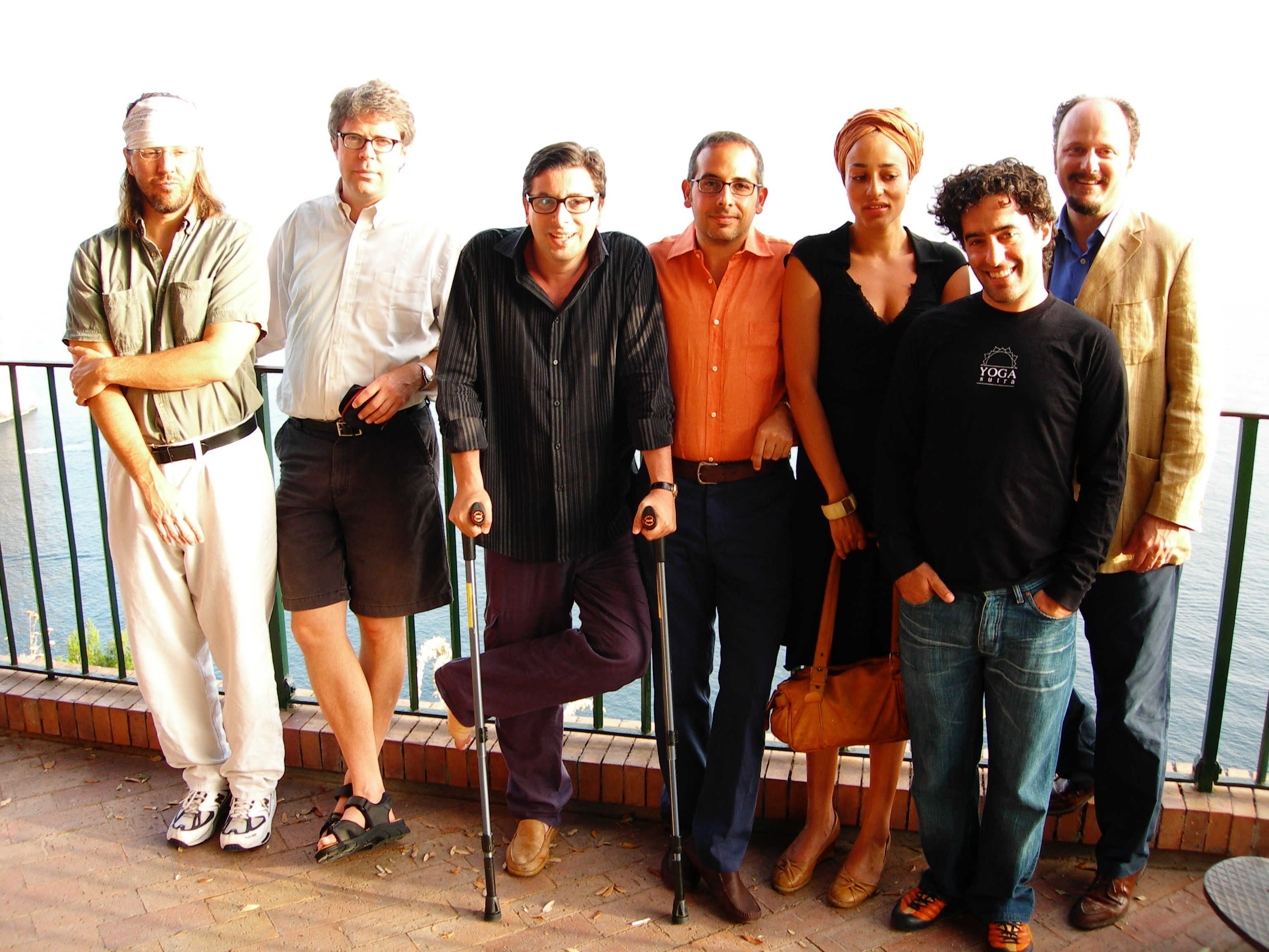 Le Conversazioni